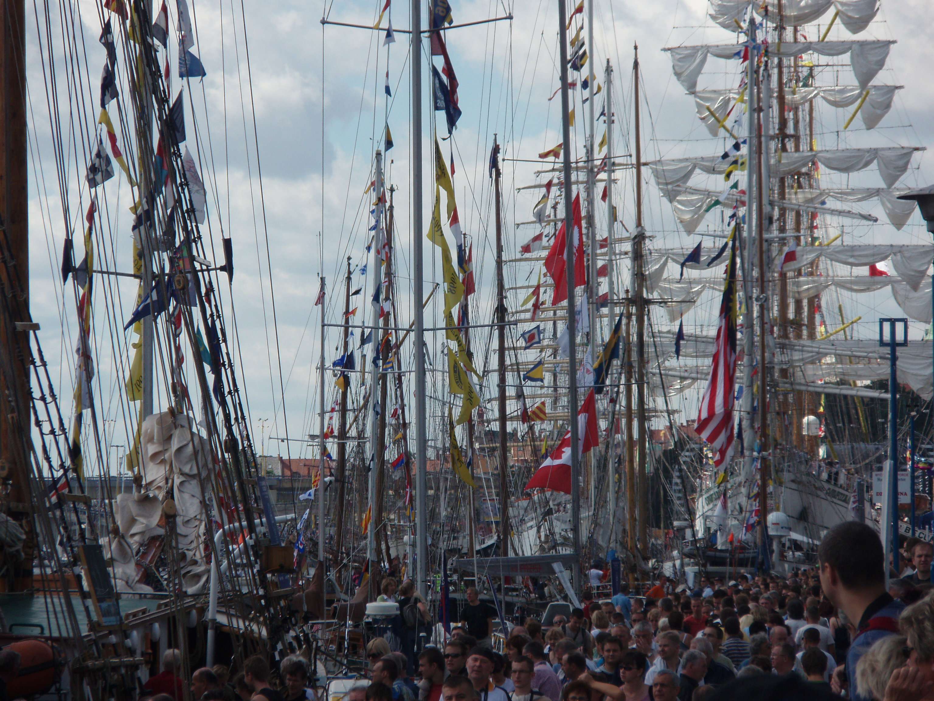 The Tall Ships' Races 2007 in Szczecin